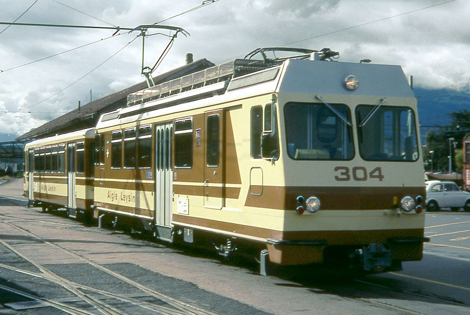 BDeh 4/4 number 304 of the Chemin de fer Aigle-Leysin in Switzerland